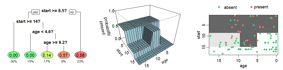 Three different representations of a classification tree of kyphosis data